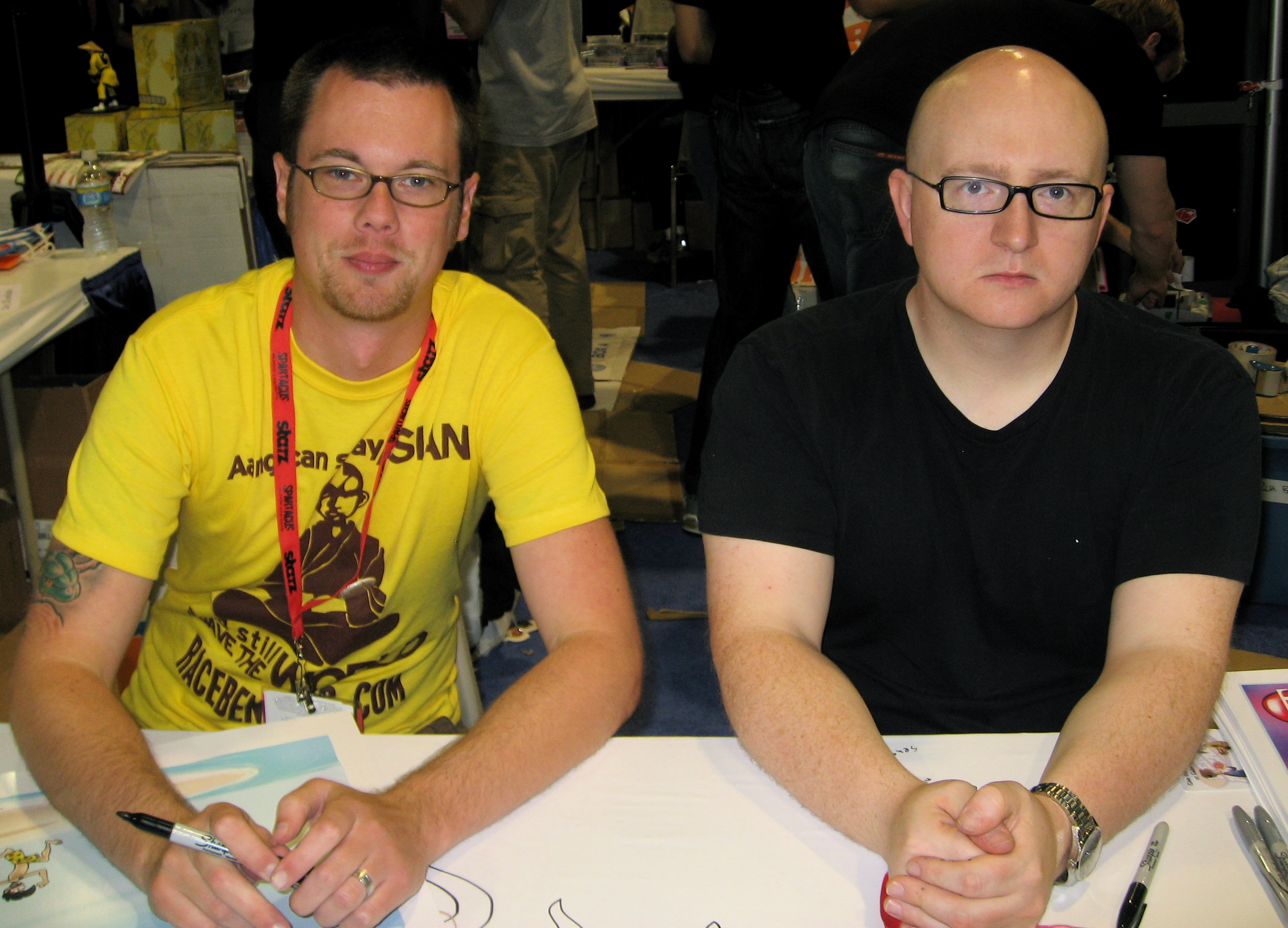 Mike Krahulik and Jerry Holkins, creators of Penny Arcade. Taken at ComiCon 2009